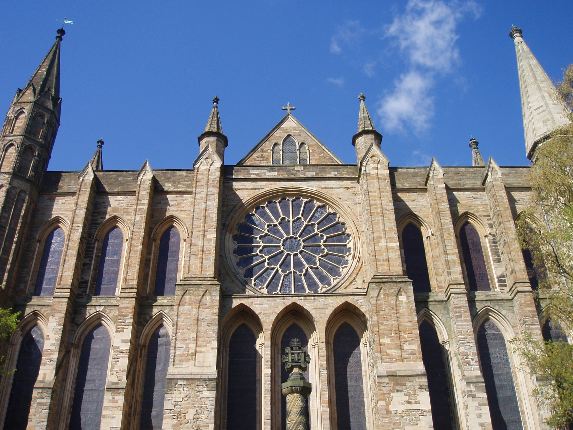 Durham Cathedral's Rose Window (external view).